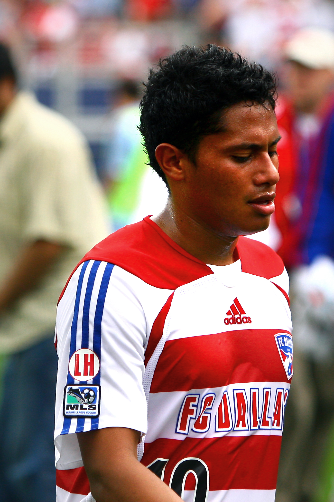 Ramon Nunez of FC Dallas